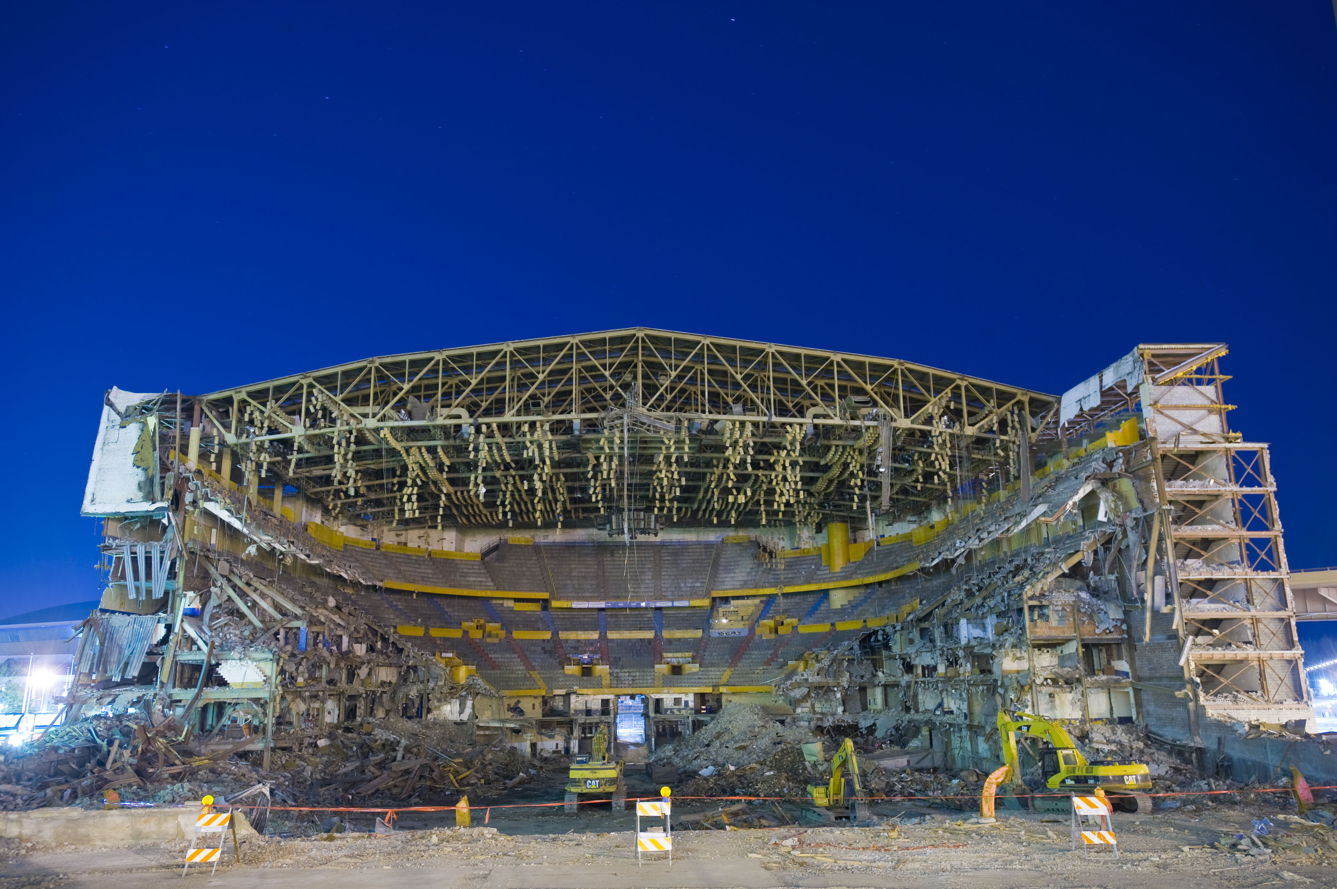 Demolition of Buffalo Memorial Auditorium, April, 2009